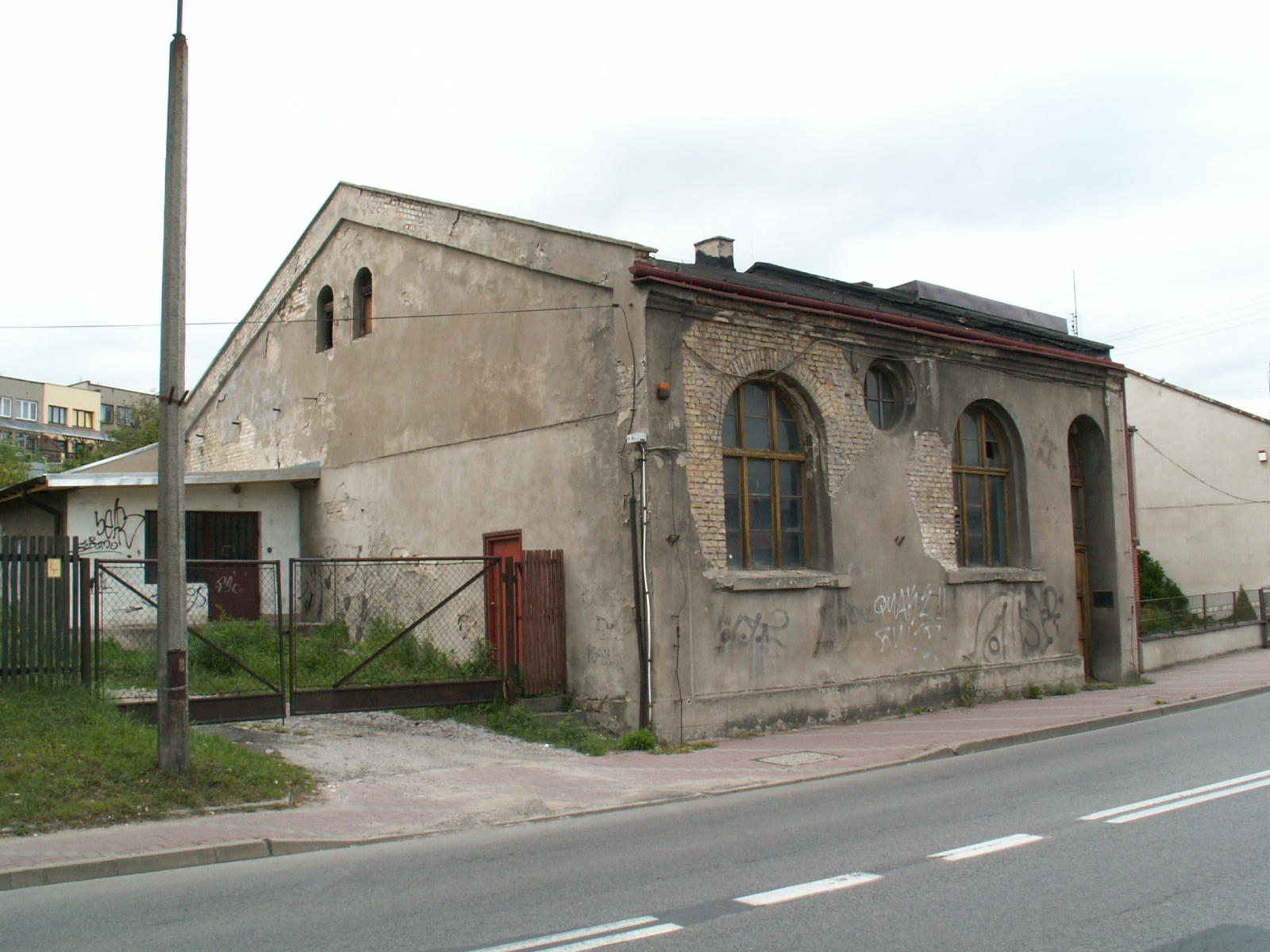 Merchants Synagogue in Trzebinia